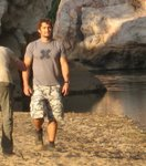 Bixente Lizarazu, the soccer star, traveling in Australia, Western Territory, as an Audi ambassador. Photo taken by Linda Lee, Sept. 22, 2007